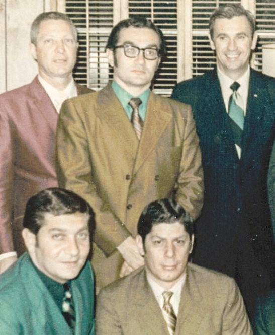 Fred Levin and some of his partners in late 1960s